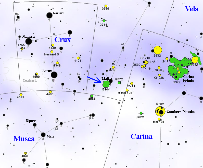 Map of IC 2944